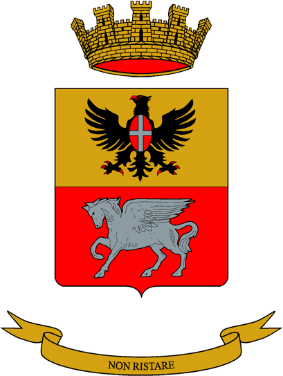 Coat of Arms of the Cavalry School; Italian Army.